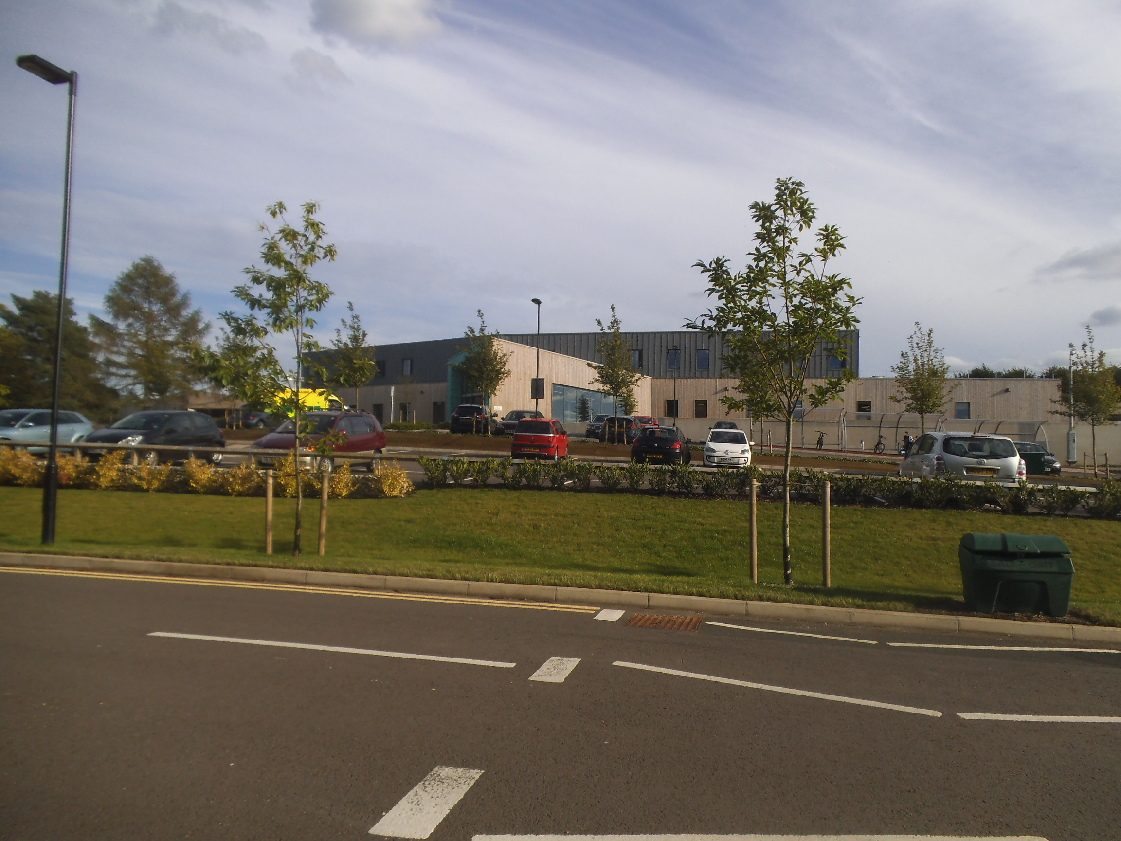 Kingsley Green Hospital, Radlett